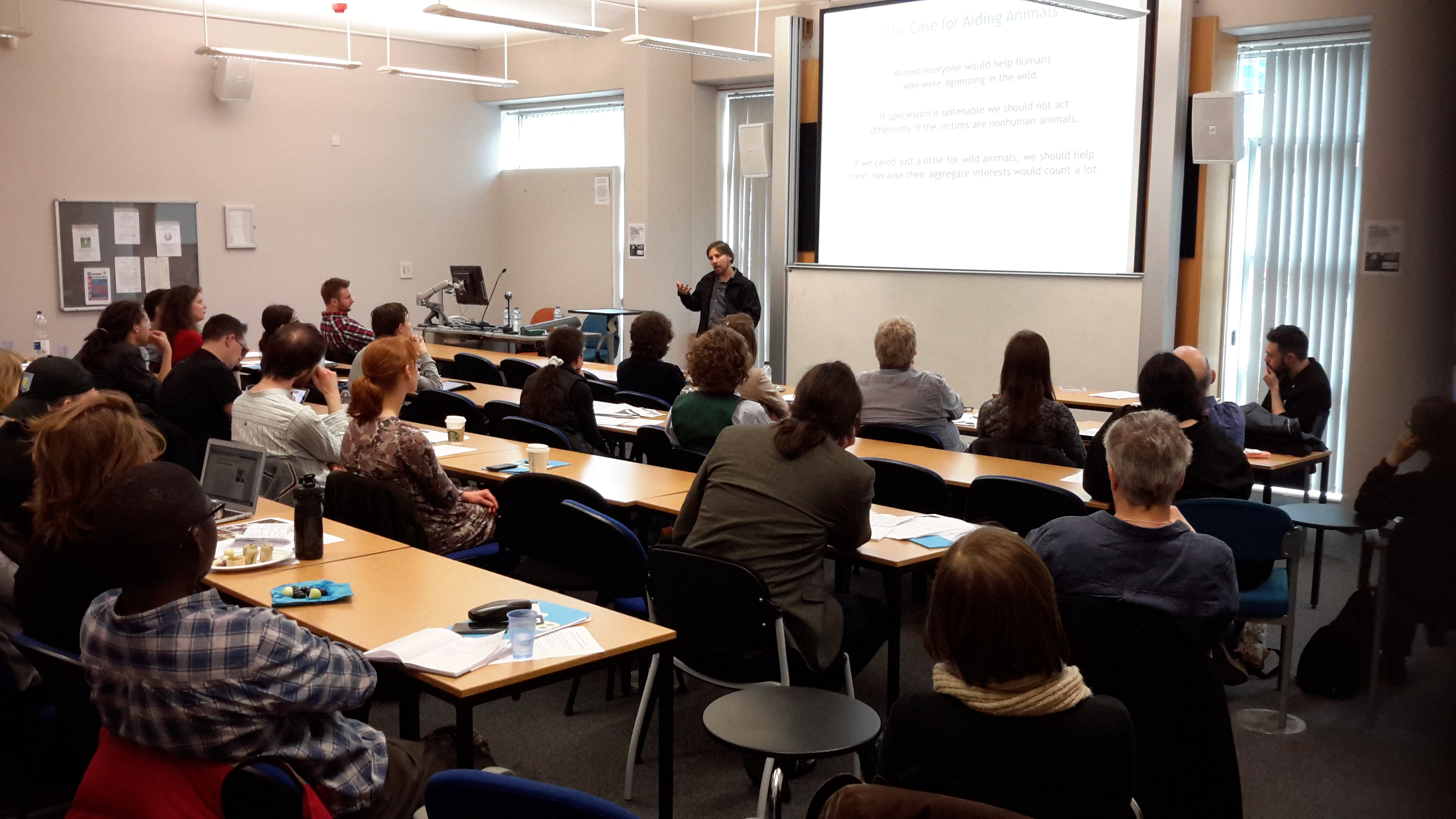 Oscar Horta presenting on intervention in nature at Ethics and/or Politics: Approaching the Issues Concerning Nonhuman Animals, University of Birmingham, April 2015.